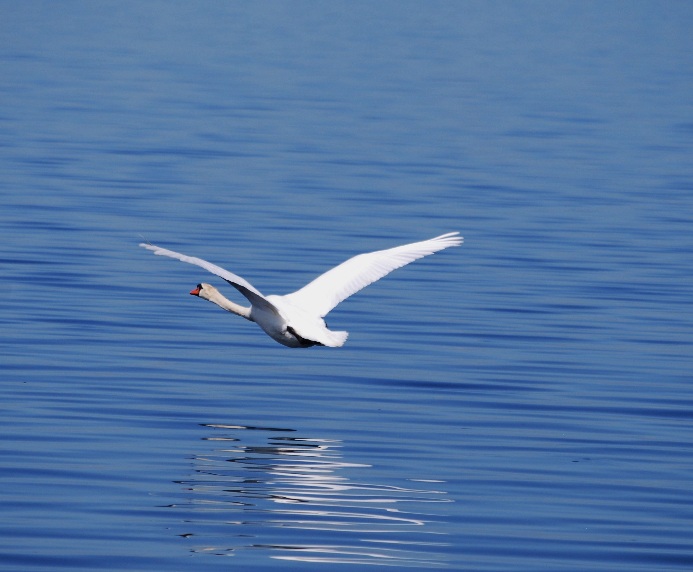 The mute swan (Cygnus olor) is a species of swan, and thus a member of the waterfowl family Anatidae